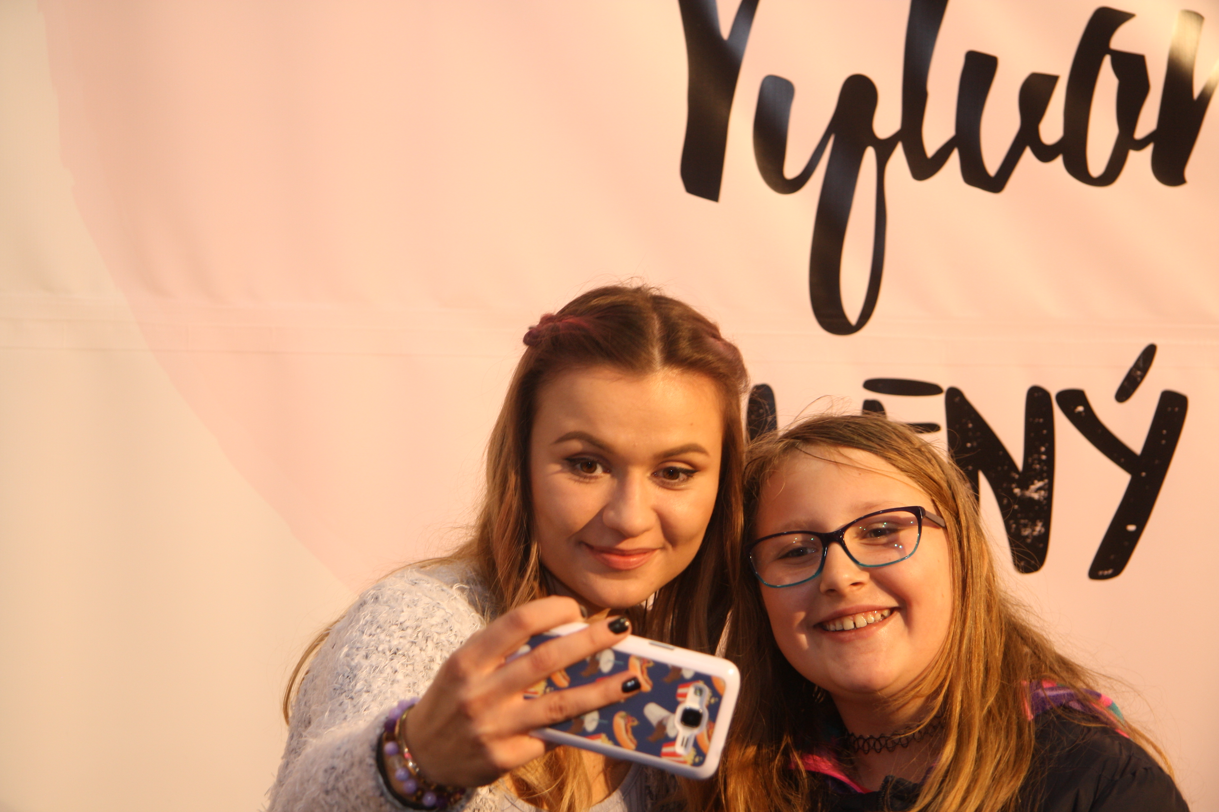 Lucypug at Utubering 2017 in Prague.